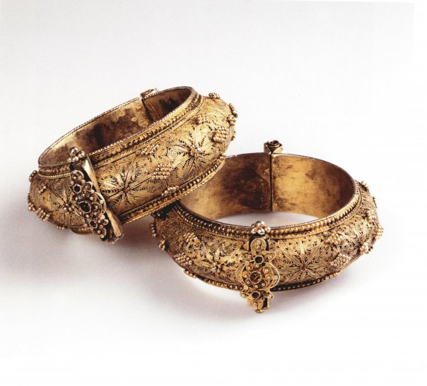 Silver Bracelets, Early 20th century, O.S.B66.1738(a-b), copyrighted by The Israel Museum, Jerusalem, and photographed by David Harris (Hebrew: דוד חריס)